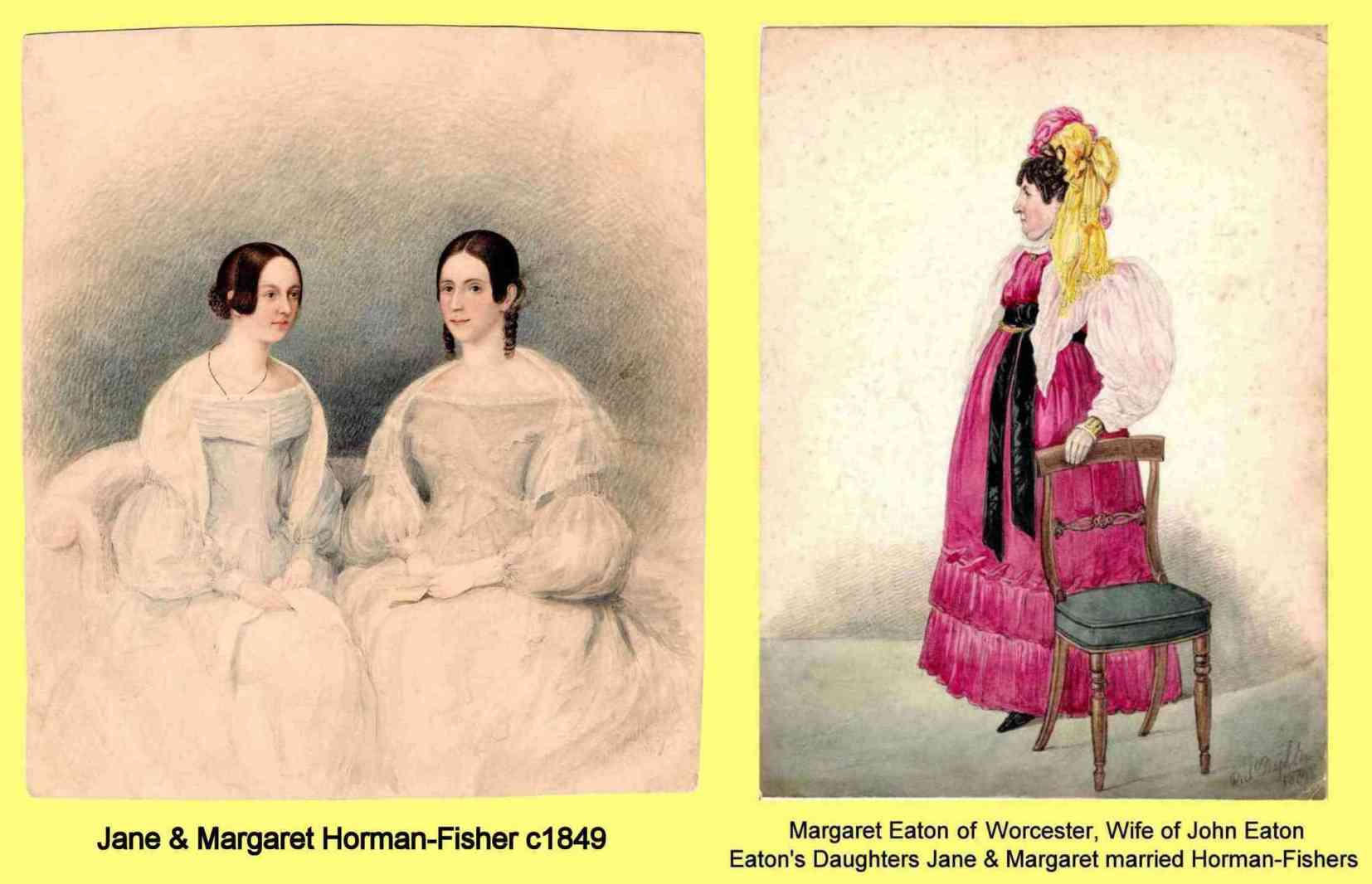 Victorian paintings